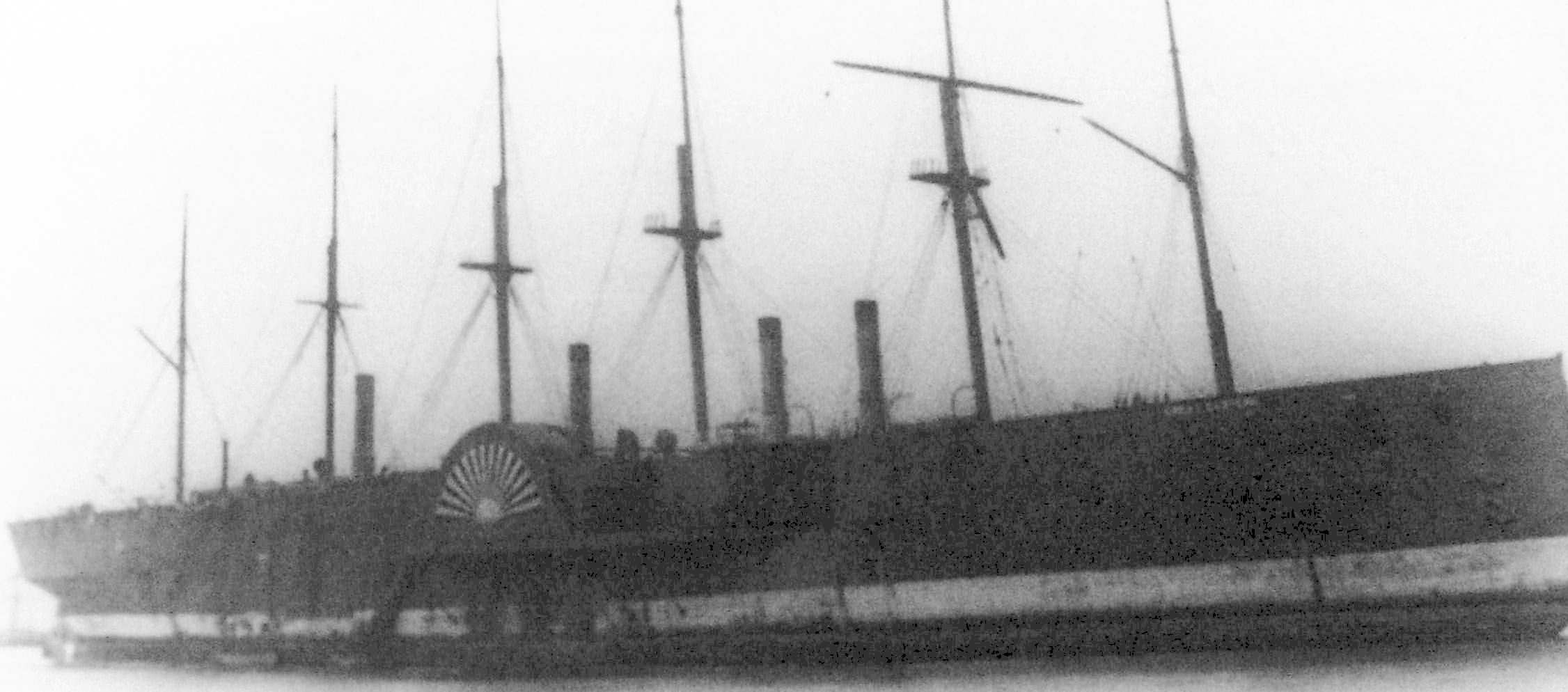 SS Great Eastern with four funnels.